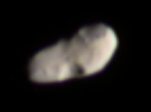 Cassini color image of minor Saturnian moon Calypso. Original NASA caption: Images taken using ultraviolet, green and infrared spectral filters were combined to create this false-color view. The images were taken with the Cassini spacecraft narrow-angle camera on Sept. 23, 2005, at a distance of approximately 101,000 kilometers (63,000 miles) from Calypso and at a Sun-Calypso-spacecraft, or phase, angle of 61 degrees. Resolution in the original image was 602 meters (1,976 feet) per pixel. The image has been contrast-enhanced and magnified by a factor of three to aid visibility.